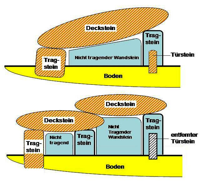 Portal tombs